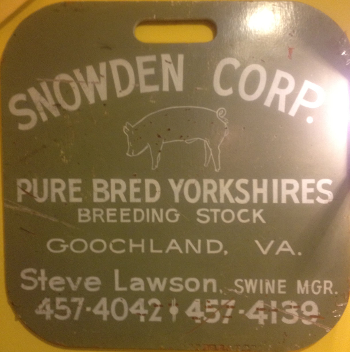 Swine or pig board used to handle hogs at fairs and display the owners name. Snowden Corporation is defunct, it operated in the sixties and seventies.